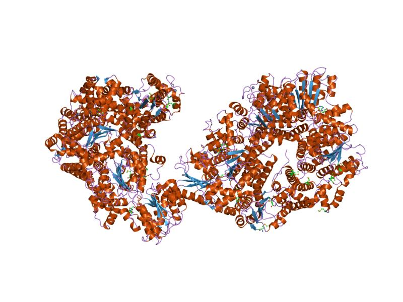 Cartoon representation of the molecular structure of protein registered with 1xxh code.